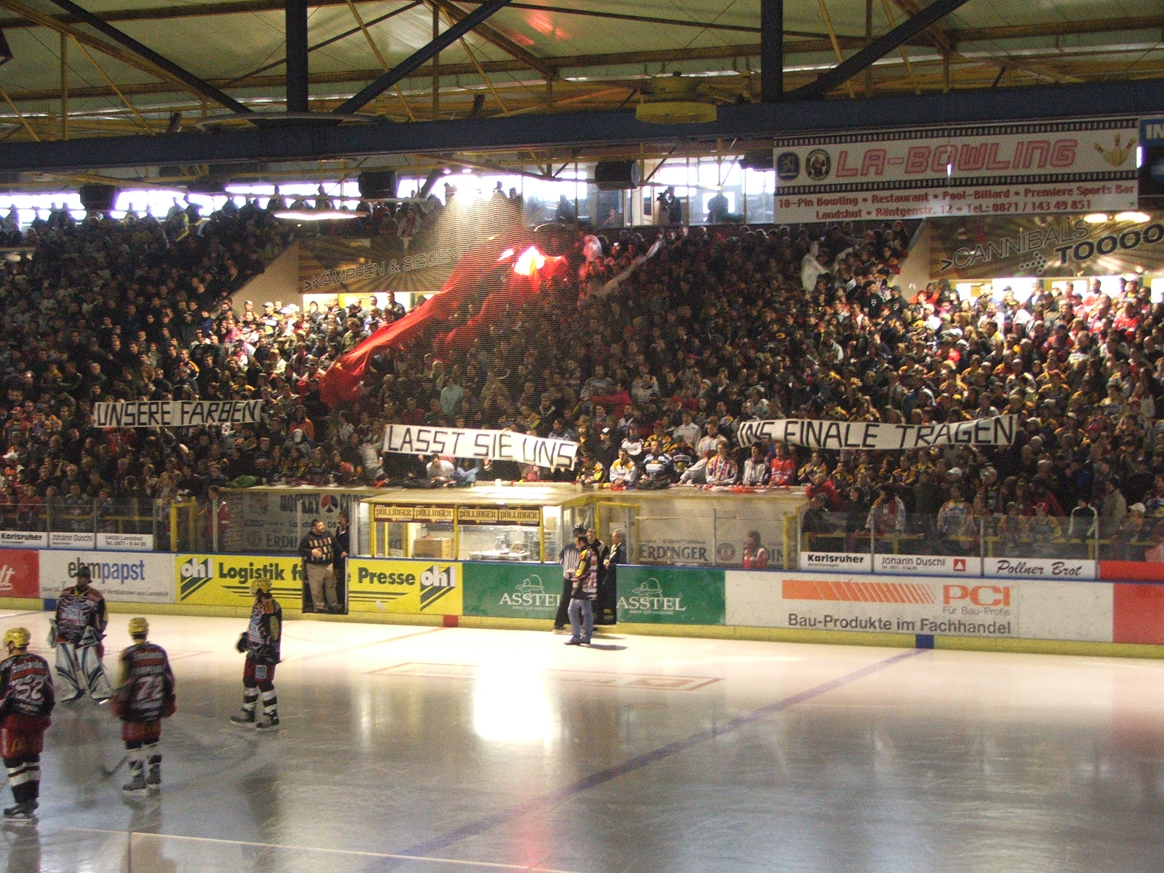 Fans of the Landshut Cannibals hockey club before the beginning of the 2nd playoff-game in the 2006-07 2nd Bundesliga season against the Schwenninger Wild Wings (3:2 OT)